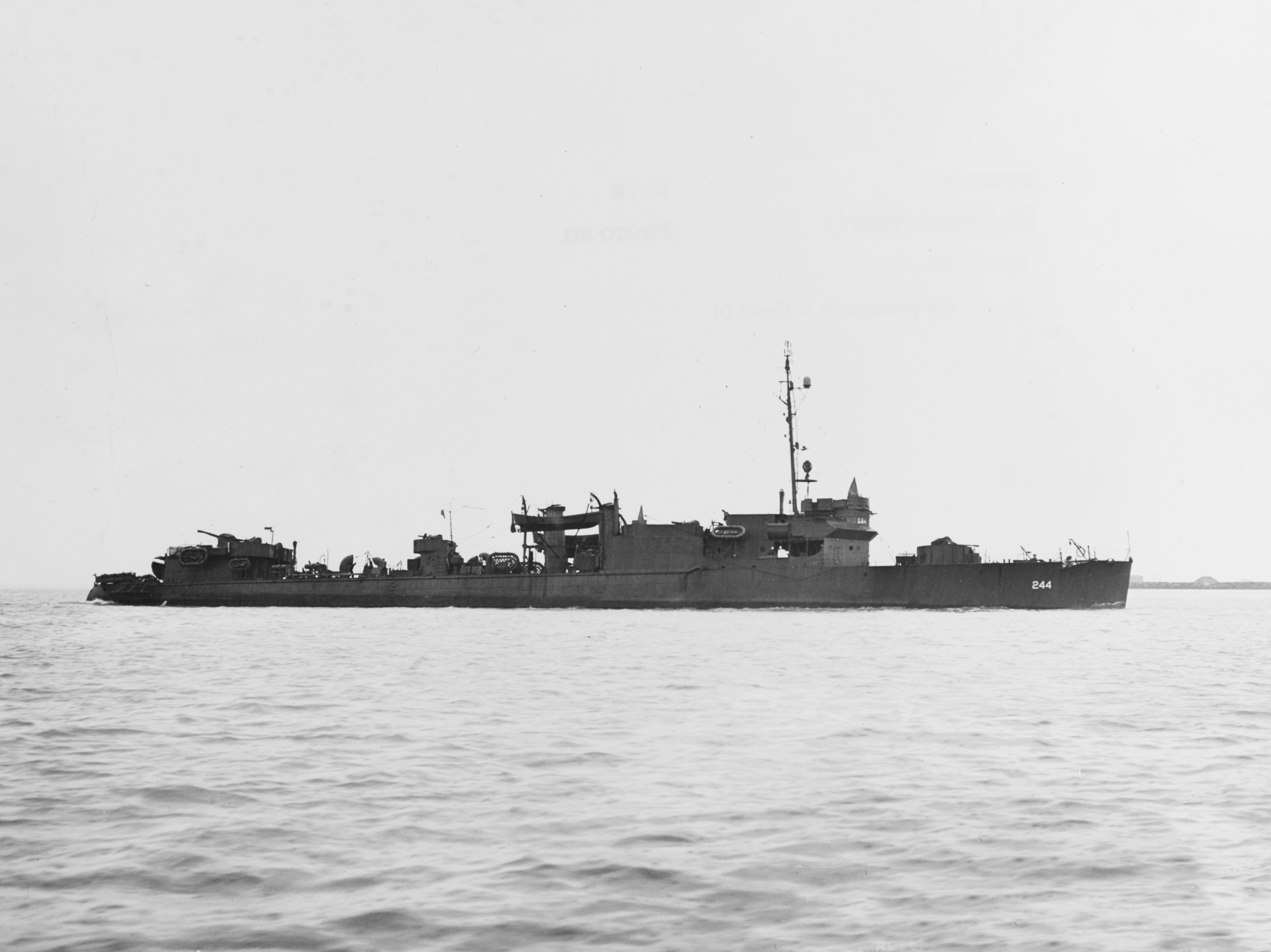 The U.S. Navy destroyer USS Williamson (DD-244) underway in San Francisco Bay, California (USA), on 23 January 1944. Though recently reclassified as a destroyer, Williamson retained most of her seaplane tender configuration (ex-AVD-2).